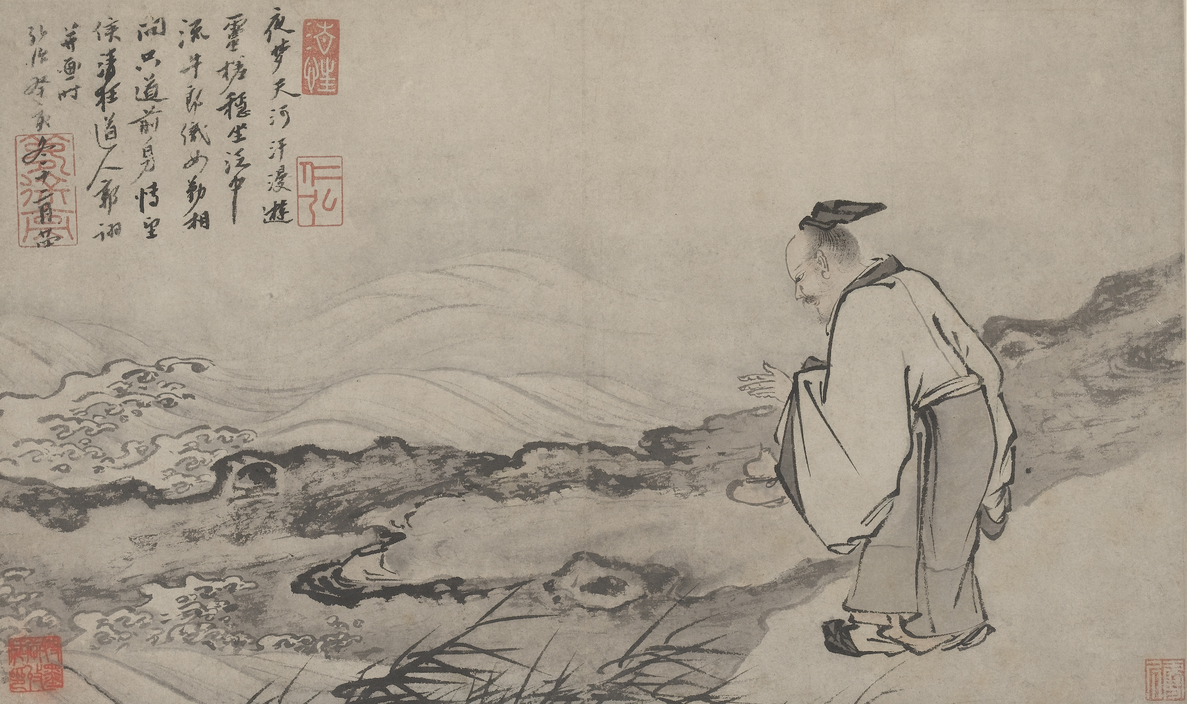 "In legend, the Weaver Girl was the star Vega – the brightest star in the sky. Her duty was weaving clouds. She fell in love with a lowly Cowherd (the star Altair) and they had children. Carried away by her romance, however, she neglected to weave clouds, and her father, the lord of the heavens, separated the couple, by creating the River of Heaven (or Milky Way) across the middle of the sky, dividing the two stars. In popular belief, the lovers are reunited on one night of the year - the seventh night of the seventh lunar month – when magpies form a bridge across the Milky Way."— Chester Beatty Library